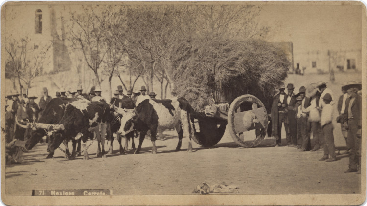 Title: Mexican Carreta (oxcart), photographed in El Paso. Creator: Parker, Francis F. Date: ca. 1885 Part Of: Lawrence T. Jones III Texas photography collection Physical Description: 1 photographic print: albumen; 9.3 x 17.4 cm. on 10.2 x 17.8 cm. mount File: ag2008_0005_4_2_2_01_r_carreta_opt.jpg Rights: Please cite Southern Methodist University, Central University Libraries, DeGolyer Library when using this image file. A high-quality version of this file may be obtained for a fee by contacting . For more information, see: View the Lawrence T. Jones III Texas Photographs at